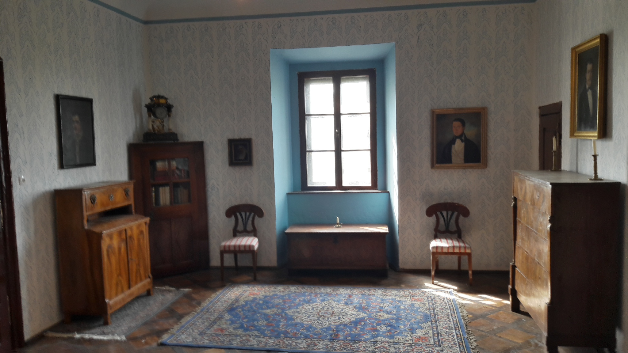 room in Biedermeier style